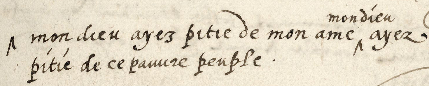 William the Silent's last words